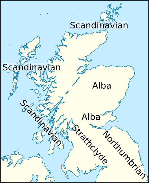 Map for the Wikipedia article concerning Eochaid, son of Rhun (fl. 878–889). The map depicts the territories of the kingdoms of Alba and Strathclyde, and the territories of the Scandinavians and Northumbrians.